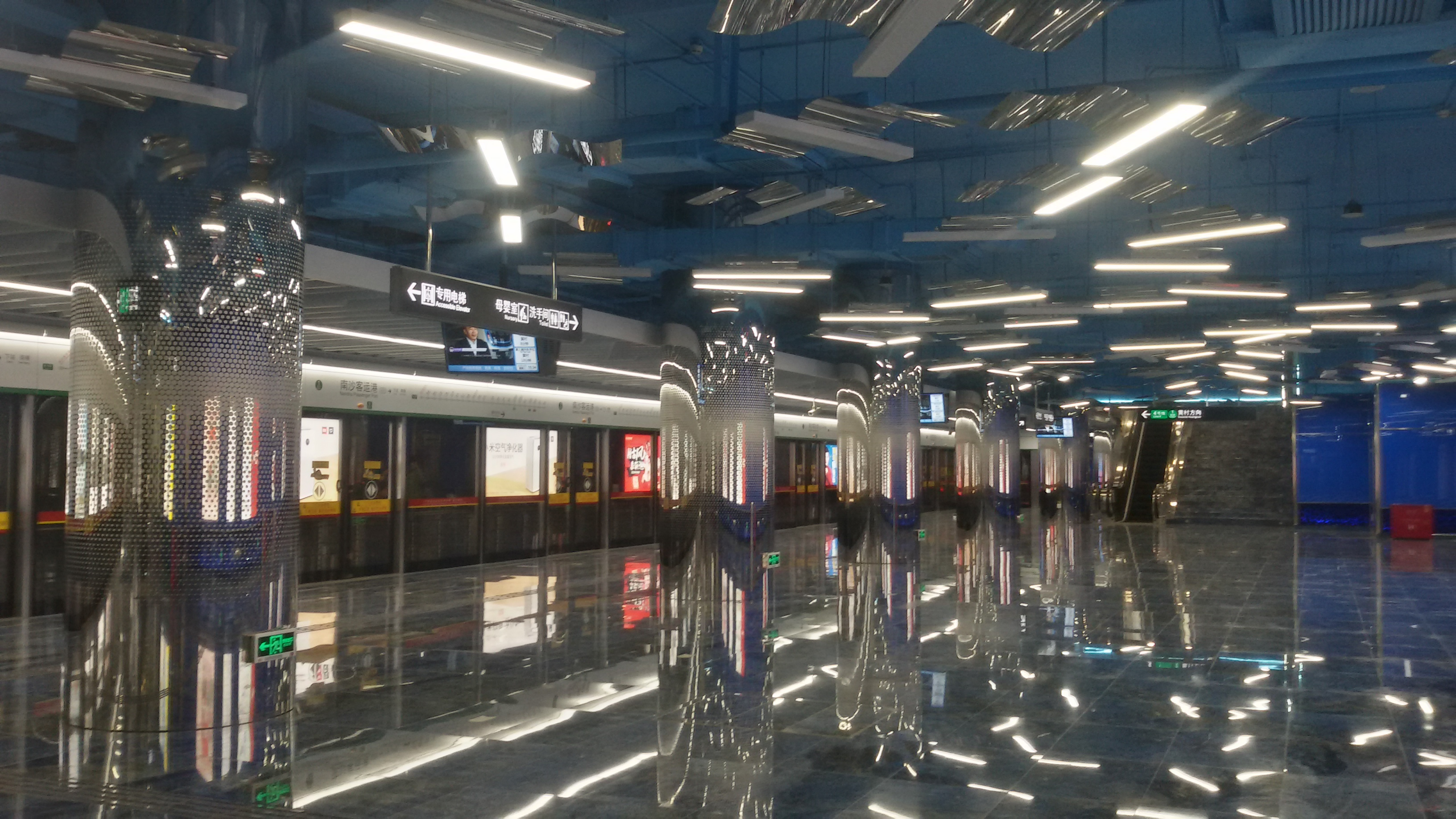 Station Platform for Nansha Passenger Port Station in Guangzhou Metro.